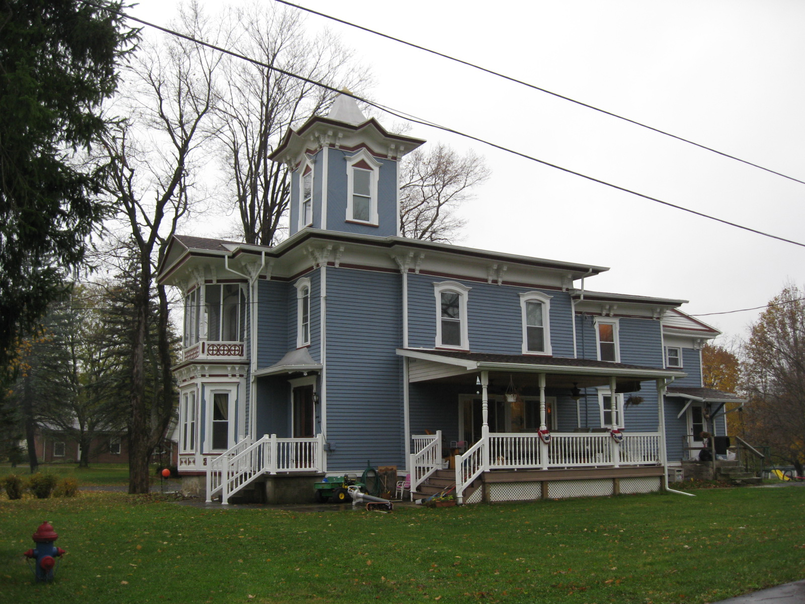 Rushville, New York